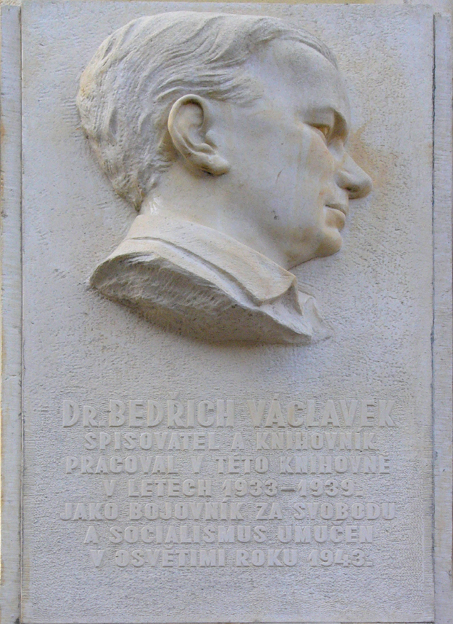 Detail of memorial plaque dedicated to Bedřich Václavek in Olomouc (Czech Republic).